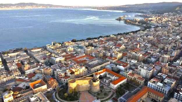 Reggio Calabria